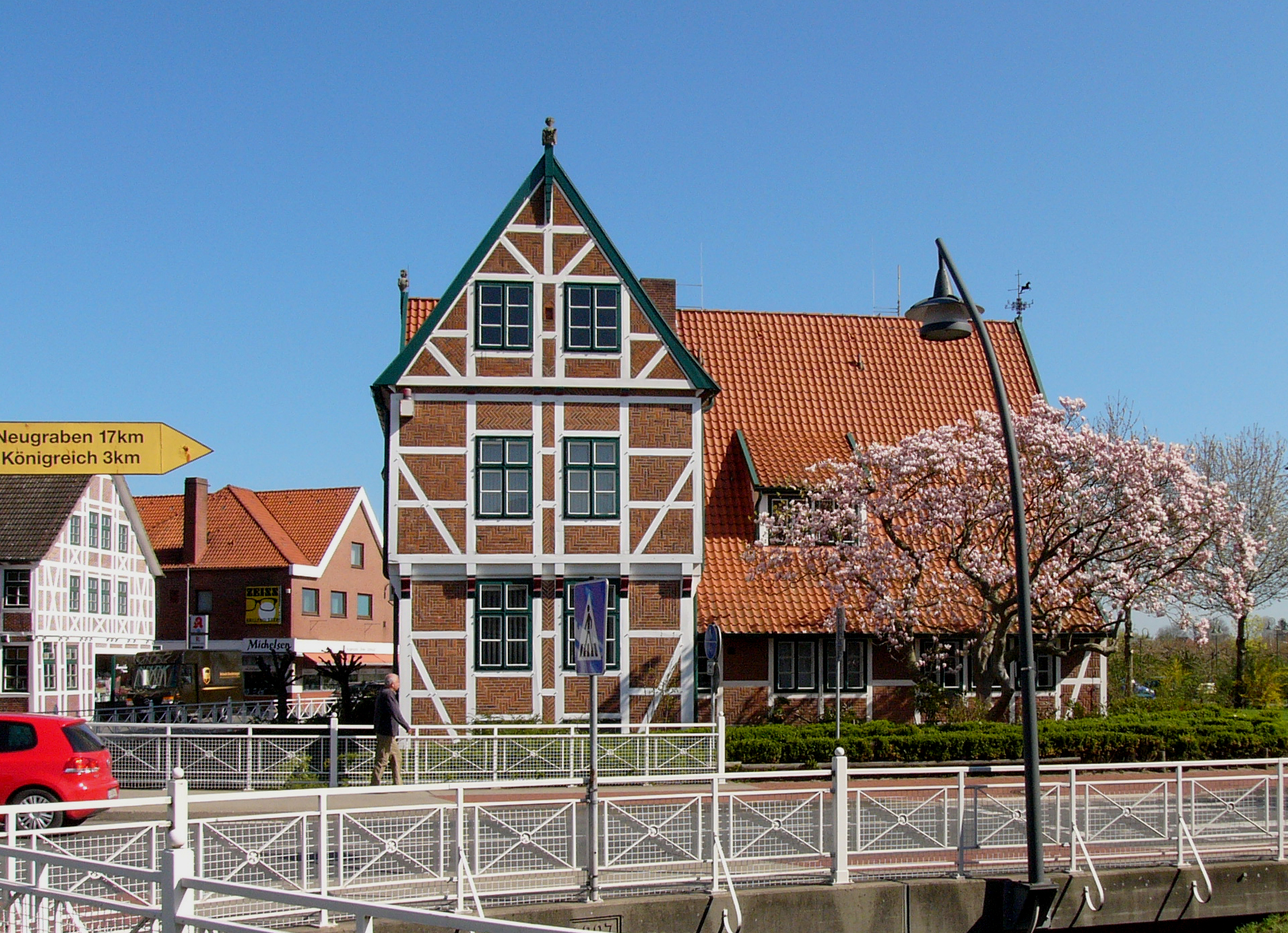 Timber framed house in Jork, Germany